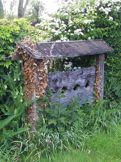 Stocks, Breamore 18th century stocks of timber construction. Villages were once required by law to maintain stocks for the punishment of offenders. Their legs or hands were held in apertures cut in two planks which were padlocked together and held by stone or wooden vertical supports. Stocks were usually erected in public places such as village green, market squares, or near churches so that passers-by could add to the severity of the sentence according to their reactions to the crime, details of which were often displayed on a notice board.